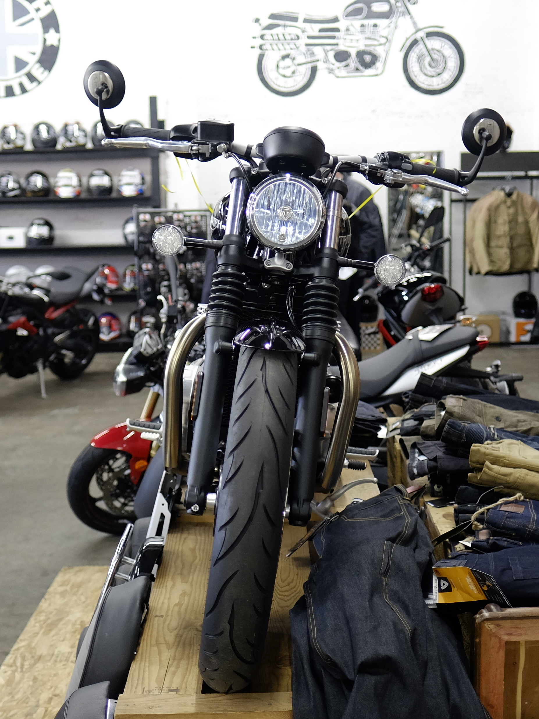 2017 Triumph Bonneville Bobber at Triumph of Seattle.